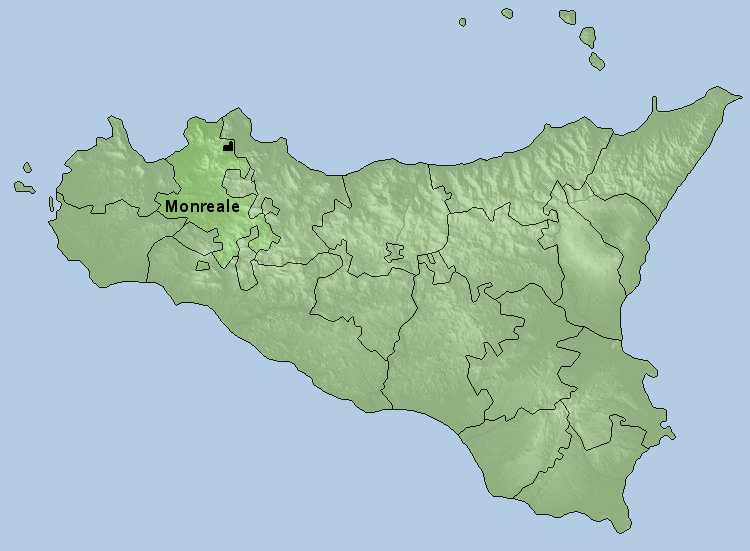 Map of the archdiocese of Monreale (^^: Cathedral of a metropolitan diocese, –^: Cathedral of a suffragan diocese, ^–: Co-cathedral)